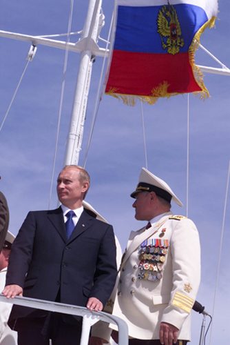 BALTIISK, THE KALININGRAD REGION. President Putin with Admiral Vladimir Yegorov, Commander of the Baltic Fleet, aboard the destroyer Nastoichivy.